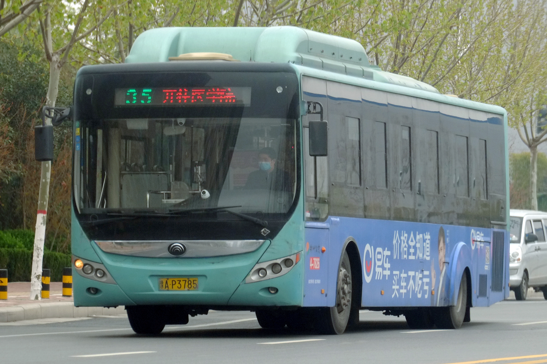 Zhengzhou Bus Route 35